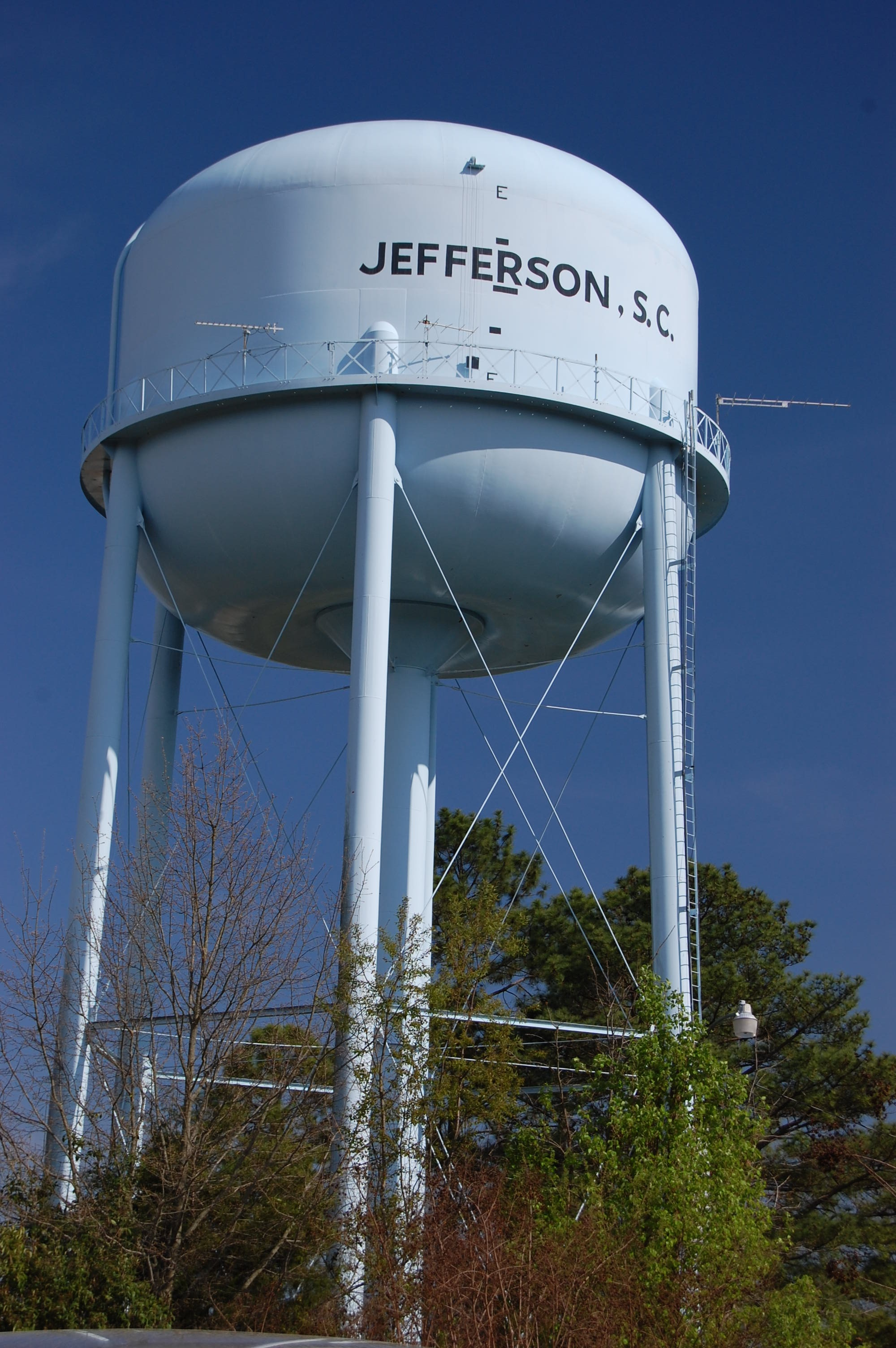 water tower jefferson, south carolina